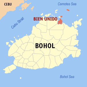 Map of Bohol showing the location of Bien Unido